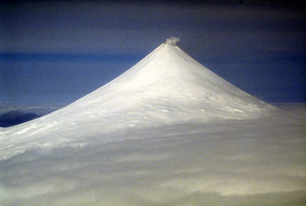 Often compared to Mount Fuji, Japan, the symmetrical Shishaldin volcano located on central Unimak Island in the Aleutian Islands rises 2,857 m (9,373 ft) above sea level. The volcano has had several historical eruptions. A summit crater emits a nearly continuous plume of steam.